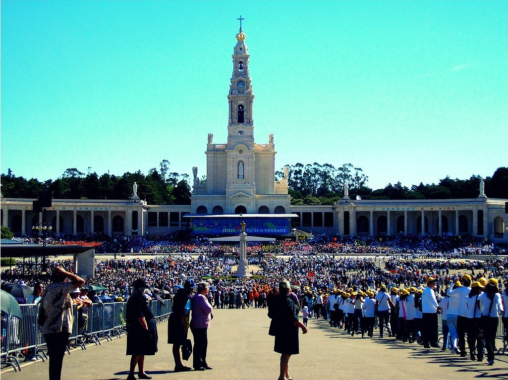 Fátima Sanctuary